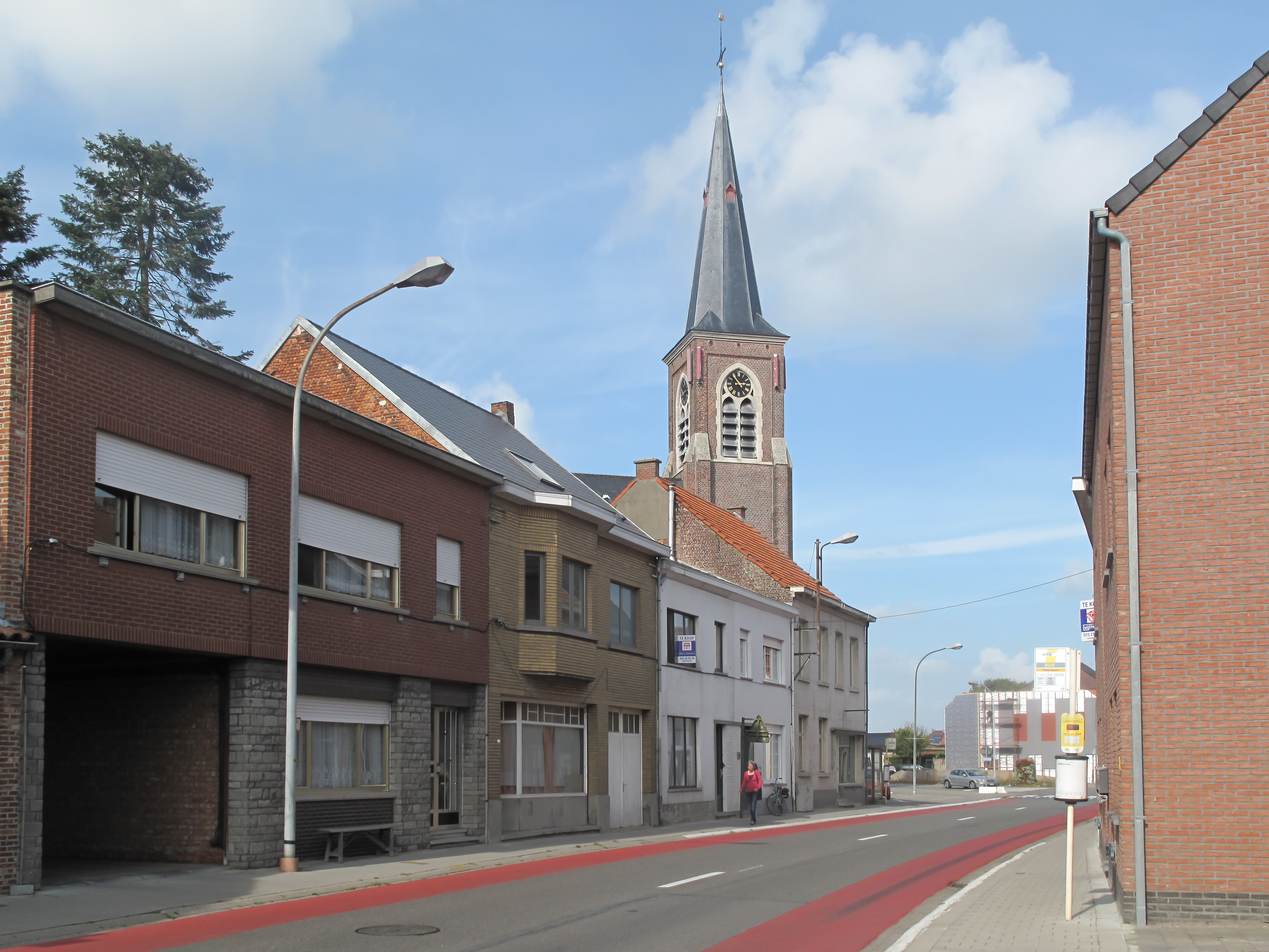 Sint Jozef, church in the street